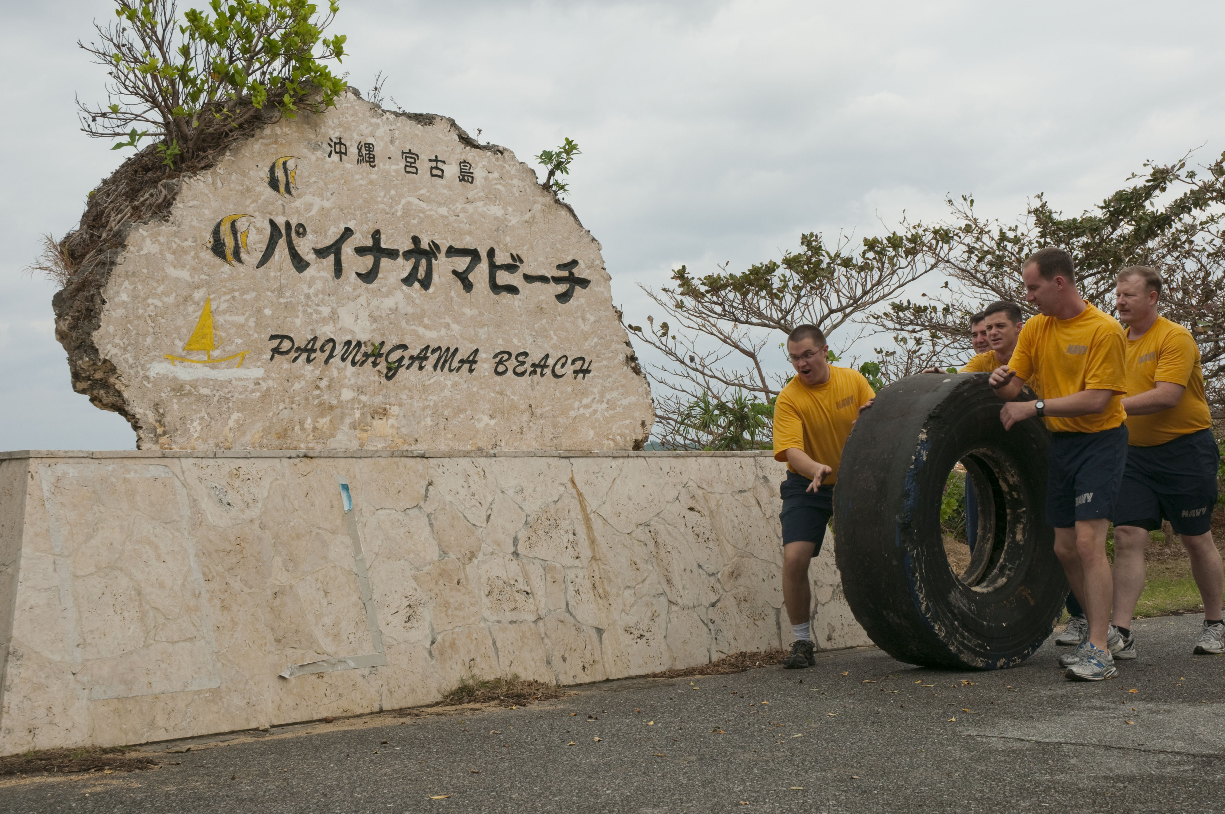 MIYAKOJIMA, Japan (Dec. 12, 2010) Members of the U.S. 7th Fleet Band, Far East Edition, roll a tire off the shoreline of Painagama Beach on the island of Miyakojima during a beach cleanup community service project. The visit to Miyakojima was a first for the U.S. 7th Fleet Band and recognized the 50th anniversary of the signing of the U.S. and Japan Treaty of Mutual Cooperation and Security. (U.S. Navy photo by Mass Communication Specialist 2nd Class Kenneth R. Hendrix/Released)